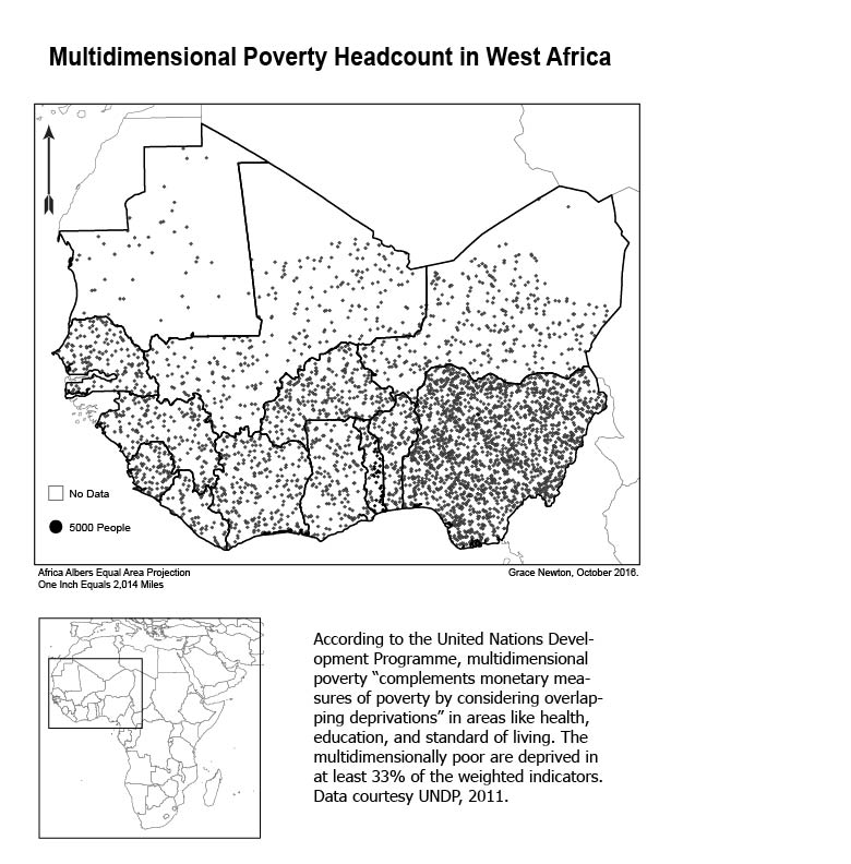 Dot density map of MPI headcount in West Africa.